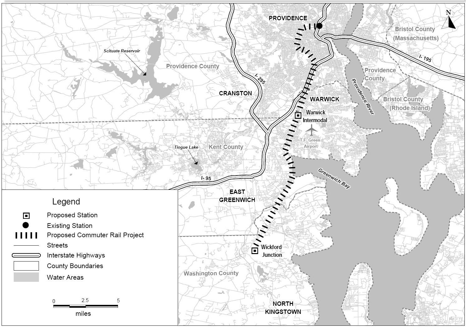 Map of the proposed South County Commuter Rail extension in Rhode Island, USA from 2007. T. F. Green Airport station opened on December 6, 2010, and Wickford Junction opened on April 23, 2012.